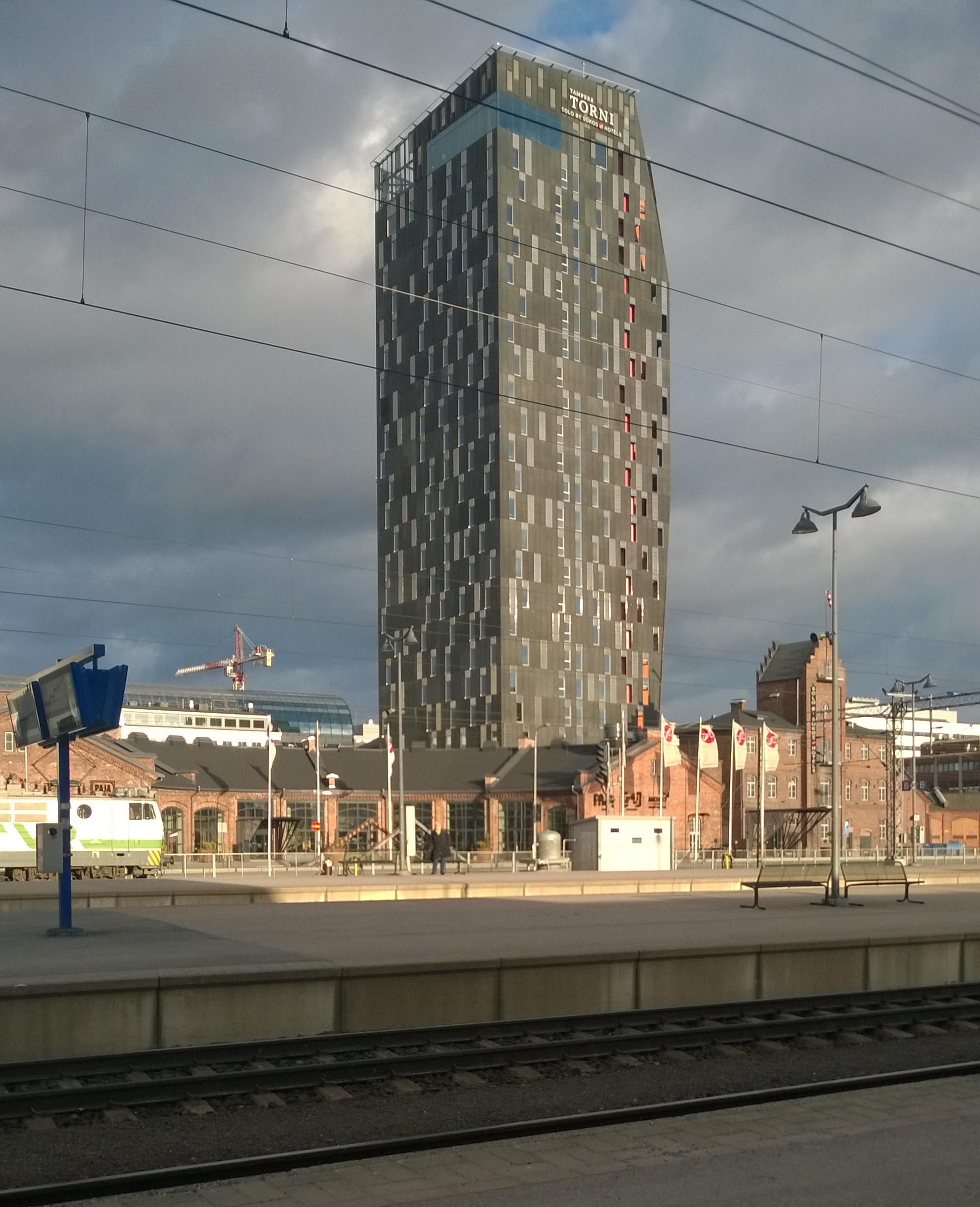 Hotelli Torni Tampere photographed from the railway station platform in April 2015.